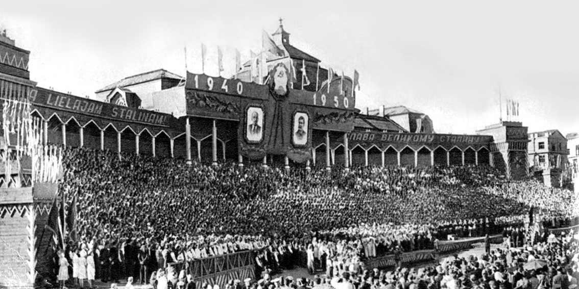 Holiday songs. Esplanade (Riga), Latvia, 1940s.